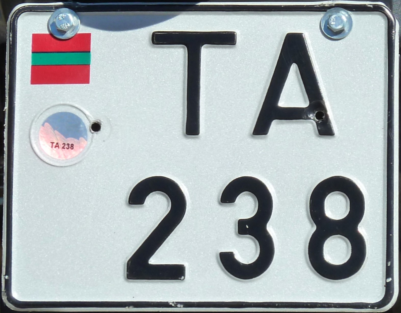 Motorcycle license plate from the Pridnestrovian Moldavian Republic (Transnistria)